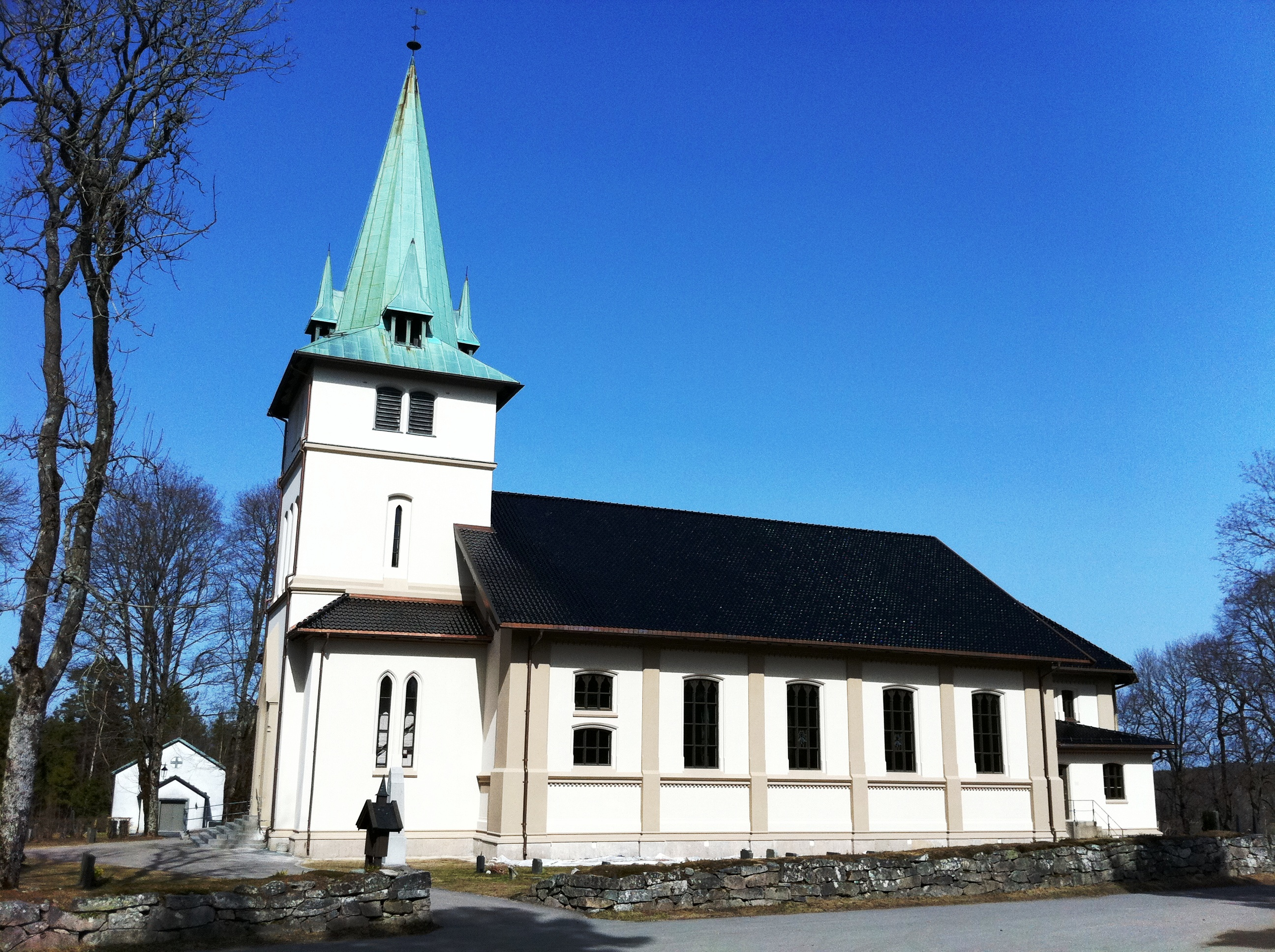 Onsøy kirke, church in Fredrikstad, Østfold